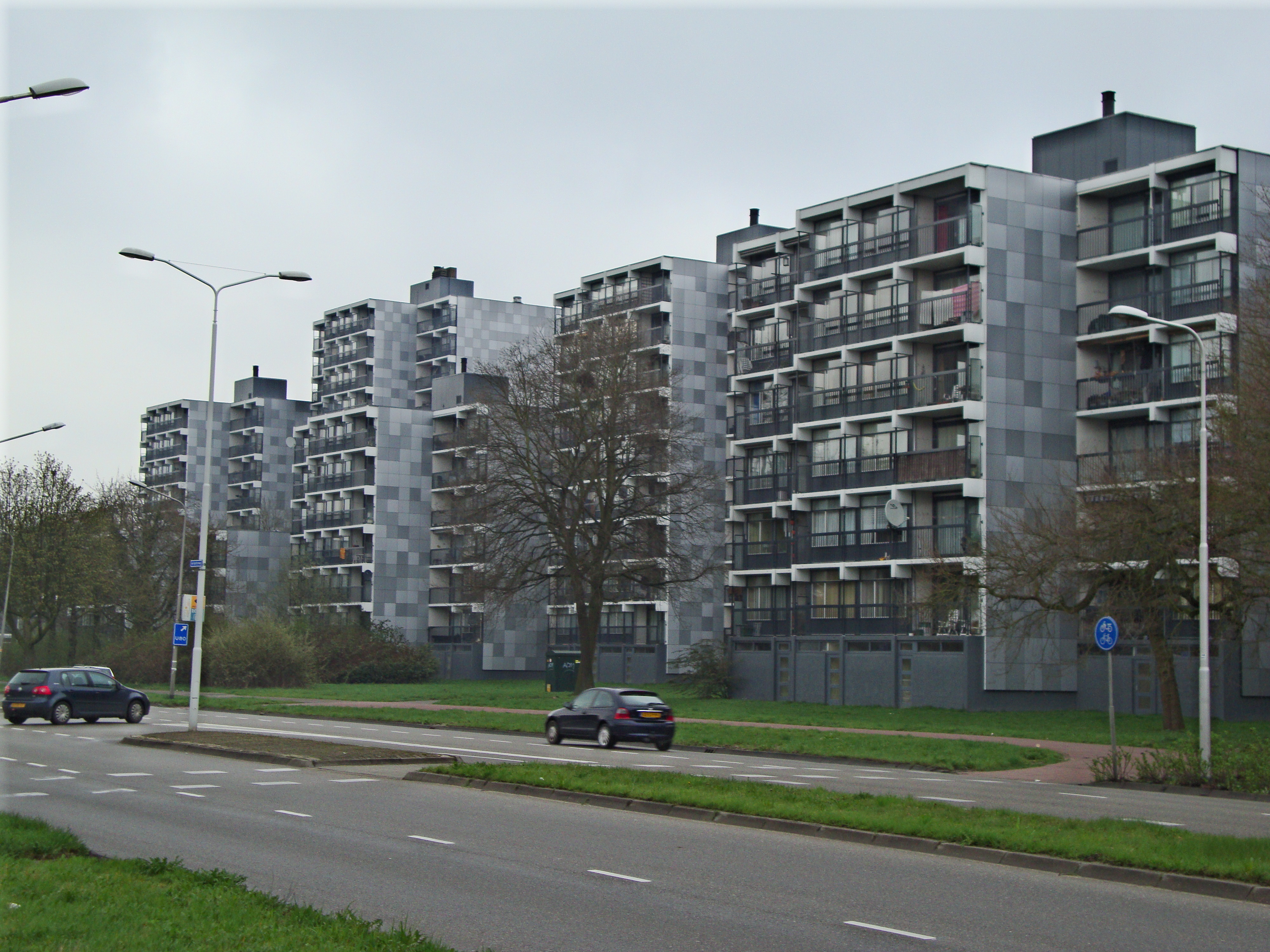 Nijmegen Dukenburg, appartment buildings (up to 12 floors) in neighbourhood Lankforst